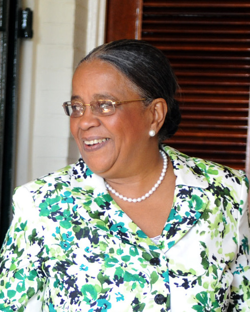 Haitian Presidential Candidate Mirlande Manigat during a meeting with U.S. Secretary of State Hillary Clinton on January 30, 2011, in Port-au-Prince, Haiti